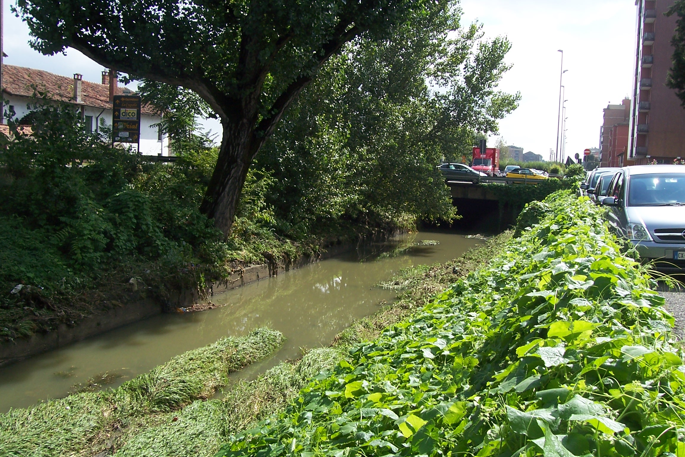 The Redefossi canal in San Giuliano milanese